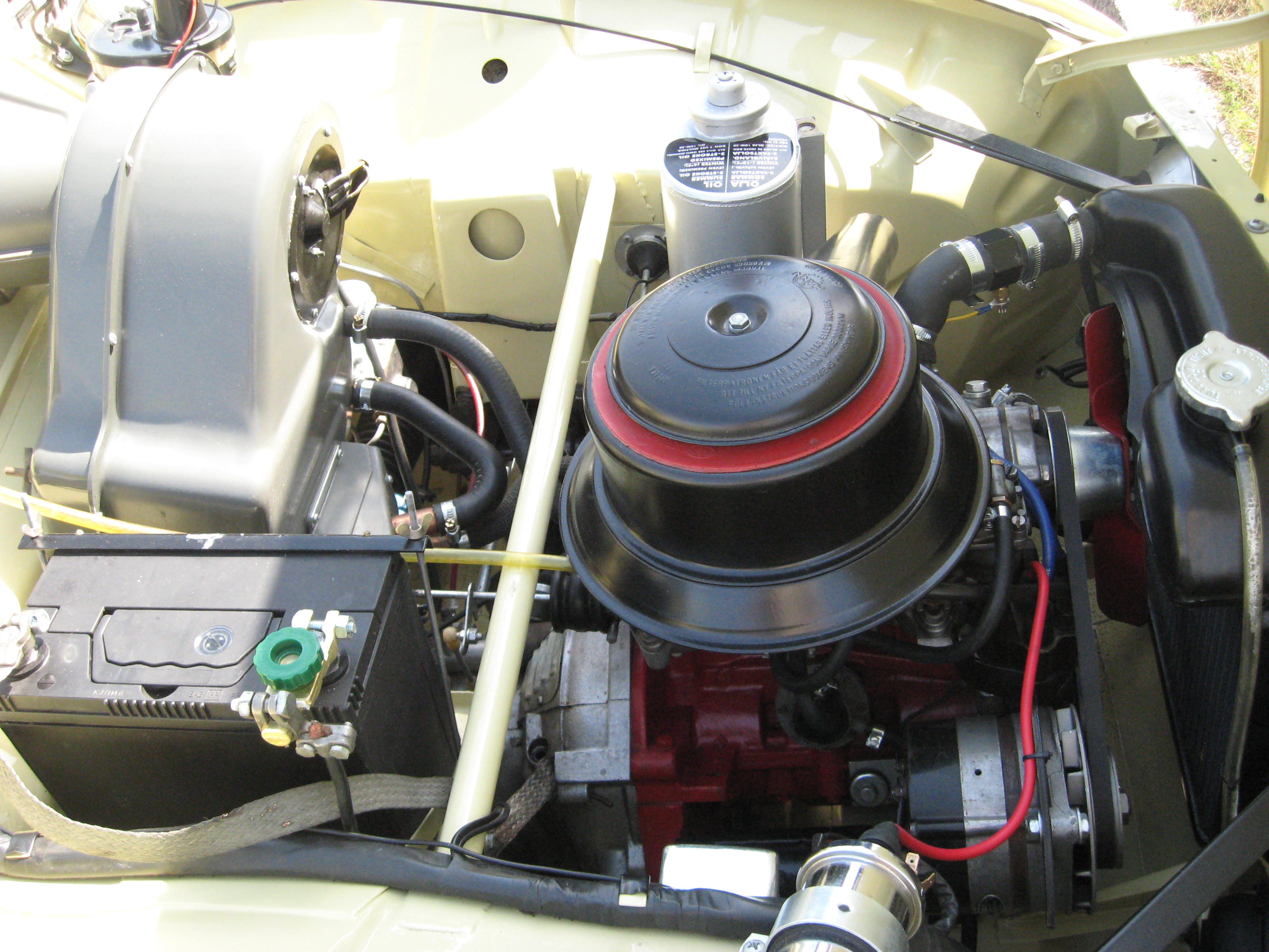 Engine bay of a longnose SAAB 96 showing factory mounted strut bar.